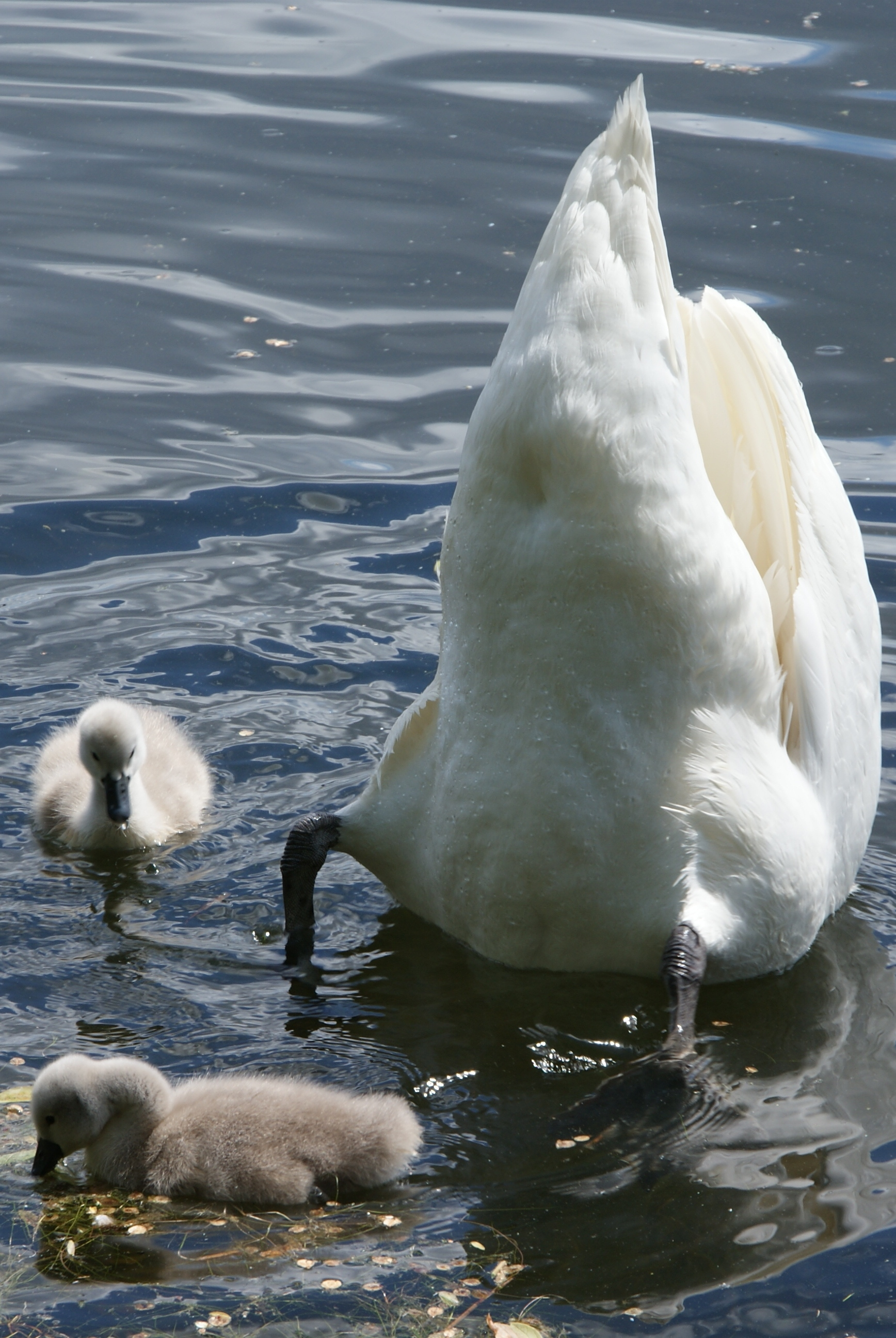 Mute Swans, Lake Tegel, Berlin